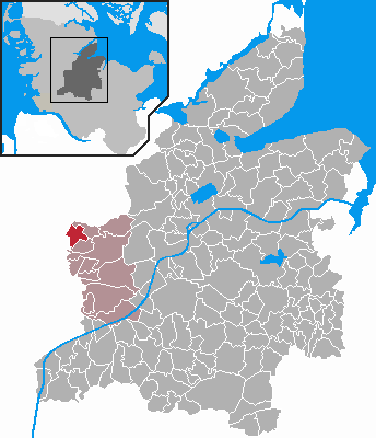 Locator maps of municipalities in Schleswig-Holstein - District Rendsburg-Eckernförde